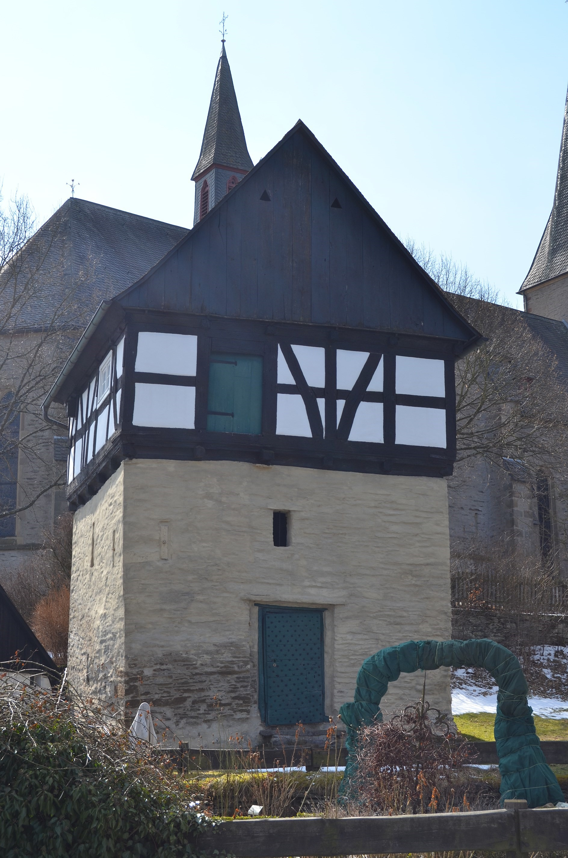 This image shows a heritage building in Germany, located in the North Rhine-Westphalian city Olsberg. This photograph was taken with a Nikon D7000 Olsberg, Assinghausen, Reisen-Speicher